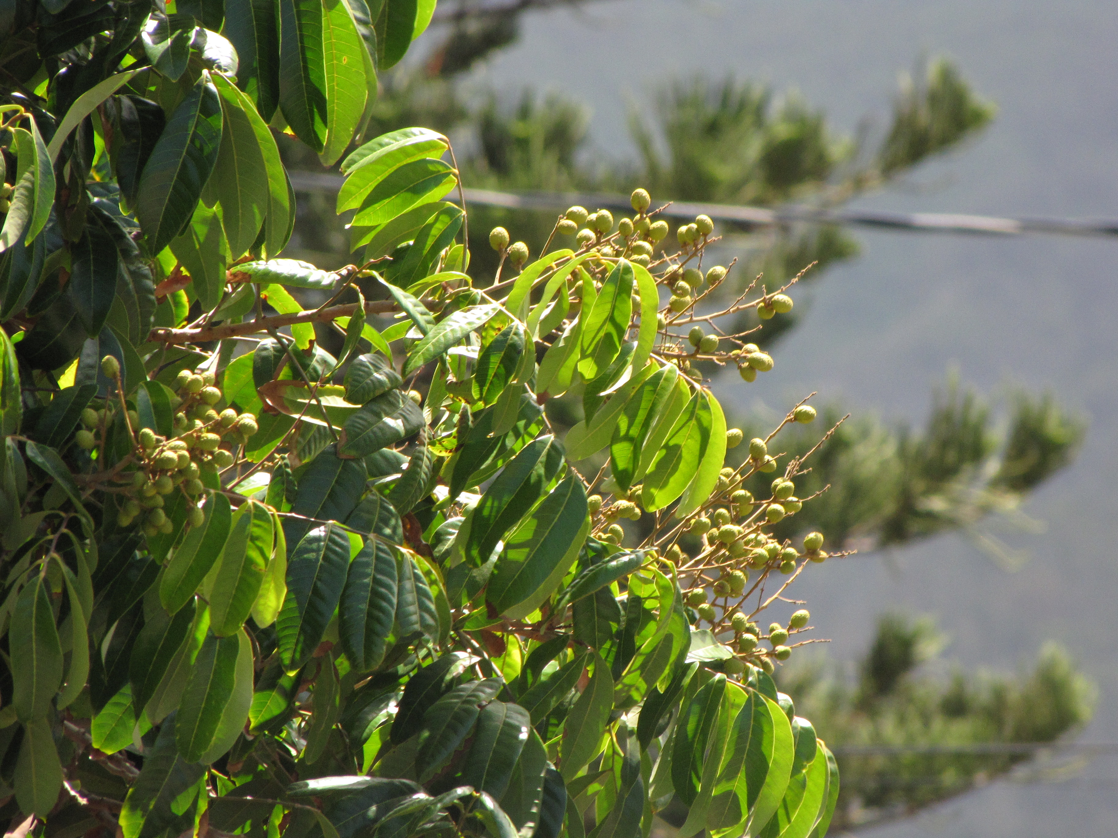 Dimocarpus longan (Longan, dragon's eye) Fruit and leaves at Wailuku, Maui, Hawaii. July 21, 2009 #090721-3288 Image Use Policy